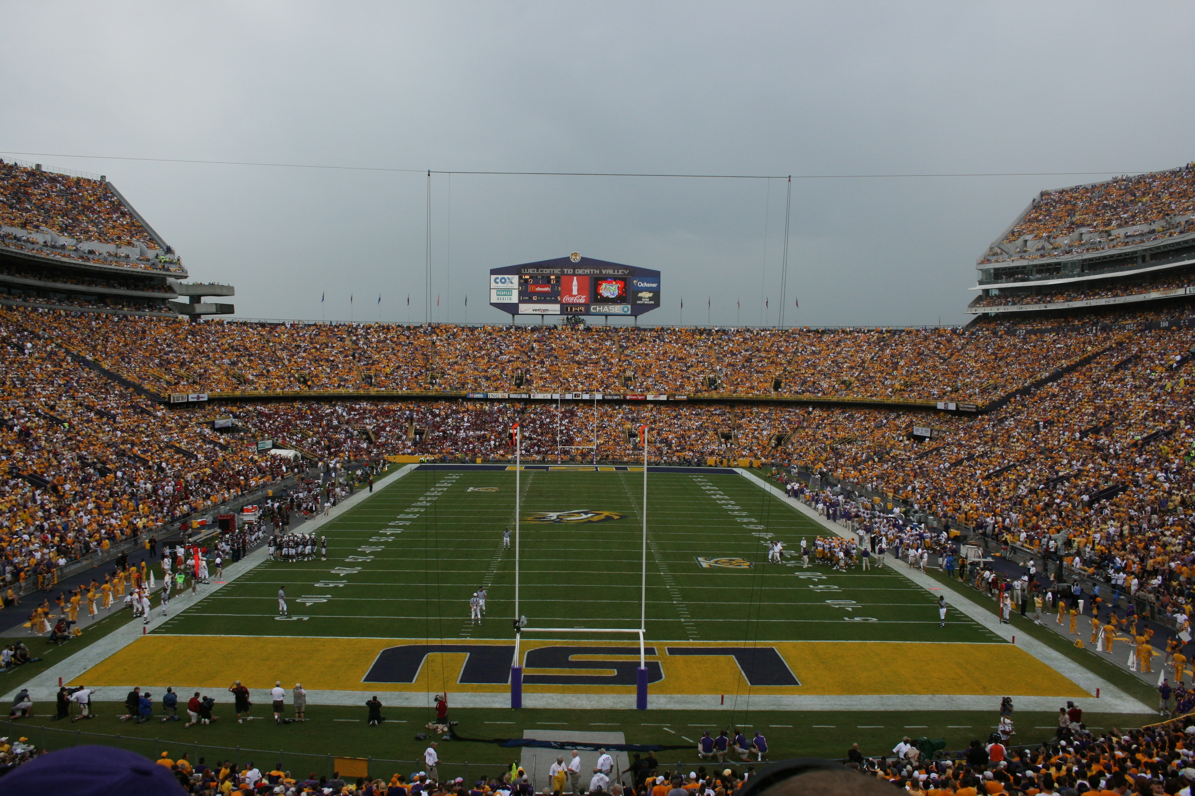 South Carolina Gamecocks vs LSU Tigers, Tiger Stadium, Baton Rouge, Louisiana